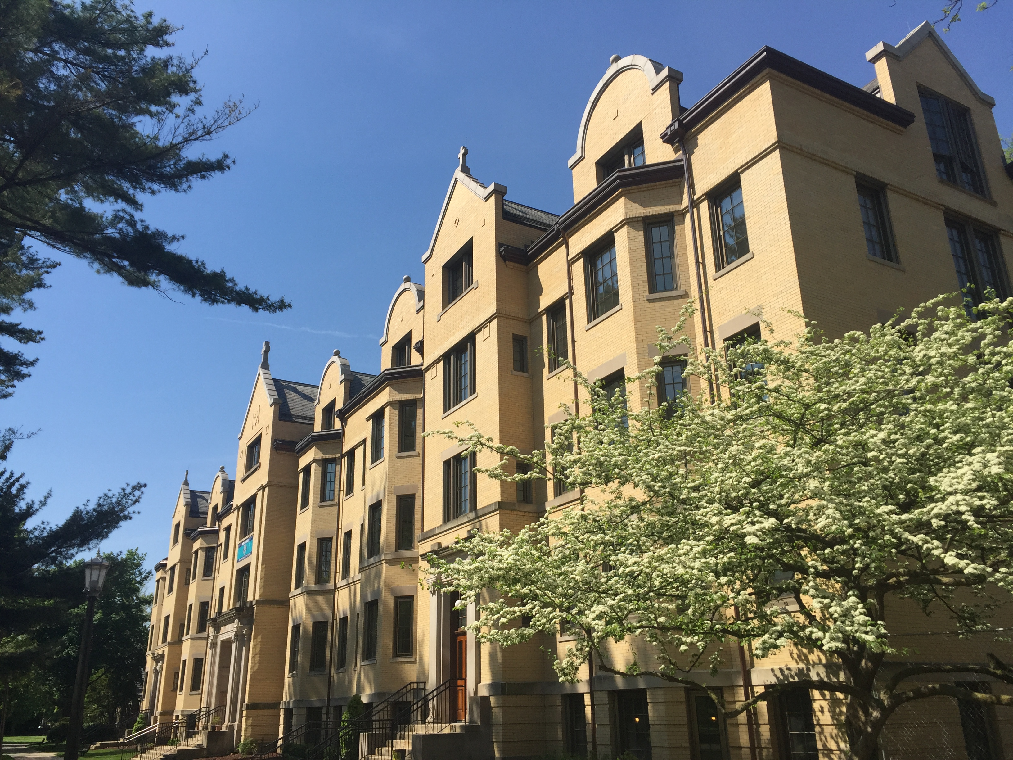 University of Notre Dame